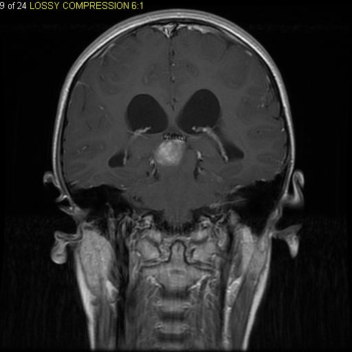 T1-weighted coronal MRI image post IV Gadolinium showing heterogeneous contrast enhancement within a presumed tectal plate pilocytic astrocytoma.